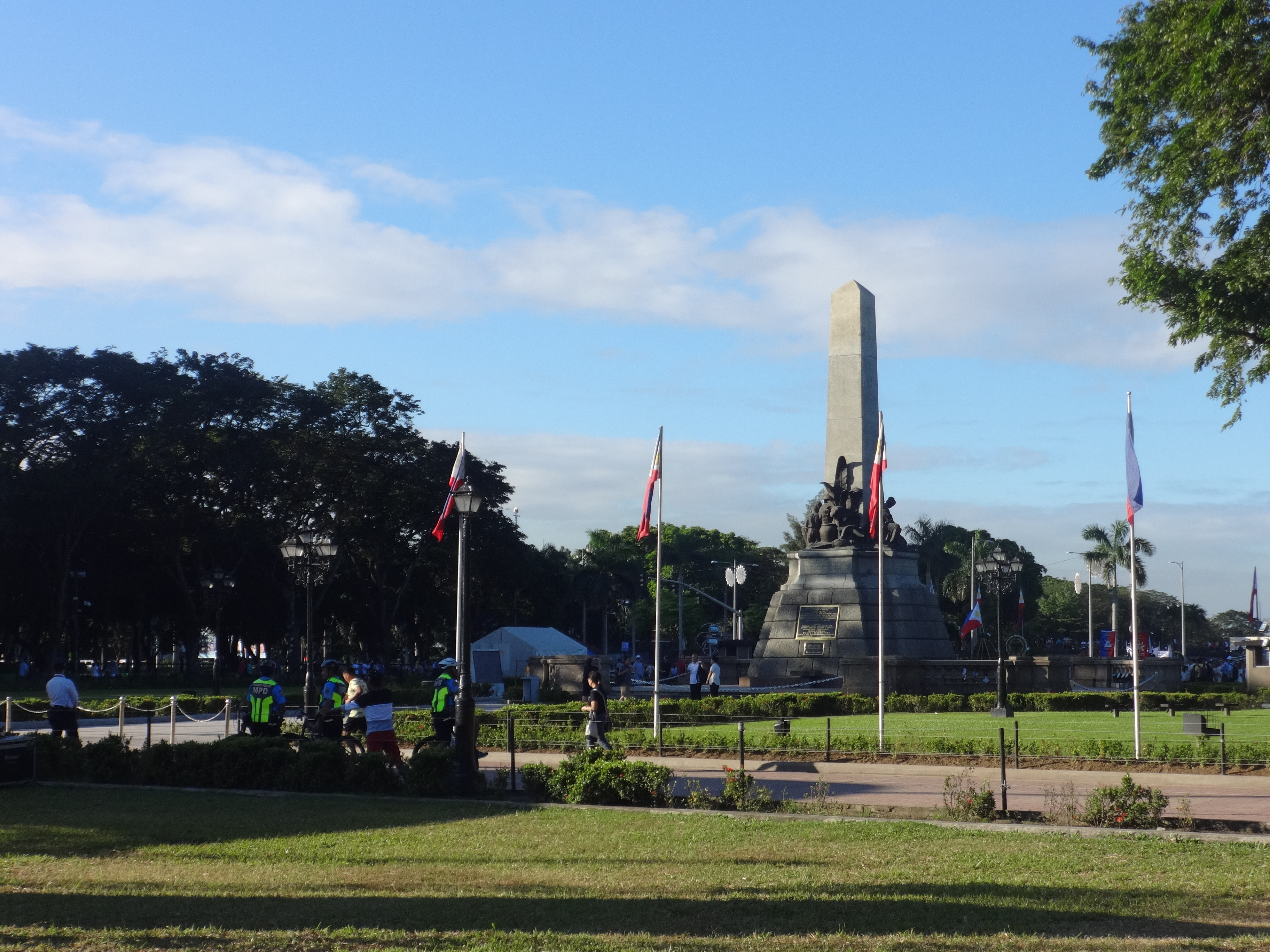 Rizal Park in Manila